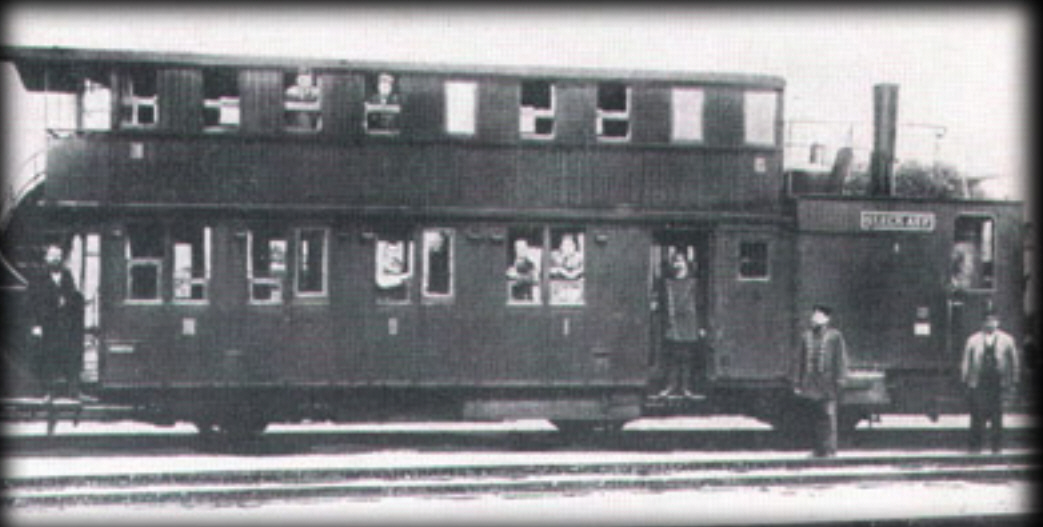 Steam multiple unit, type Thomas. Name: "Glück auf". By Hessische Ludwigsbahn.